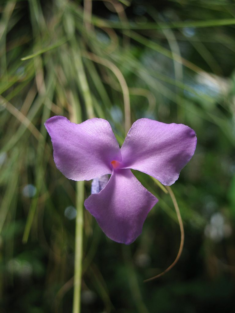 Tillandsia linearis, in cultivation at the Botanical Garden of Heidelberg, Germany.